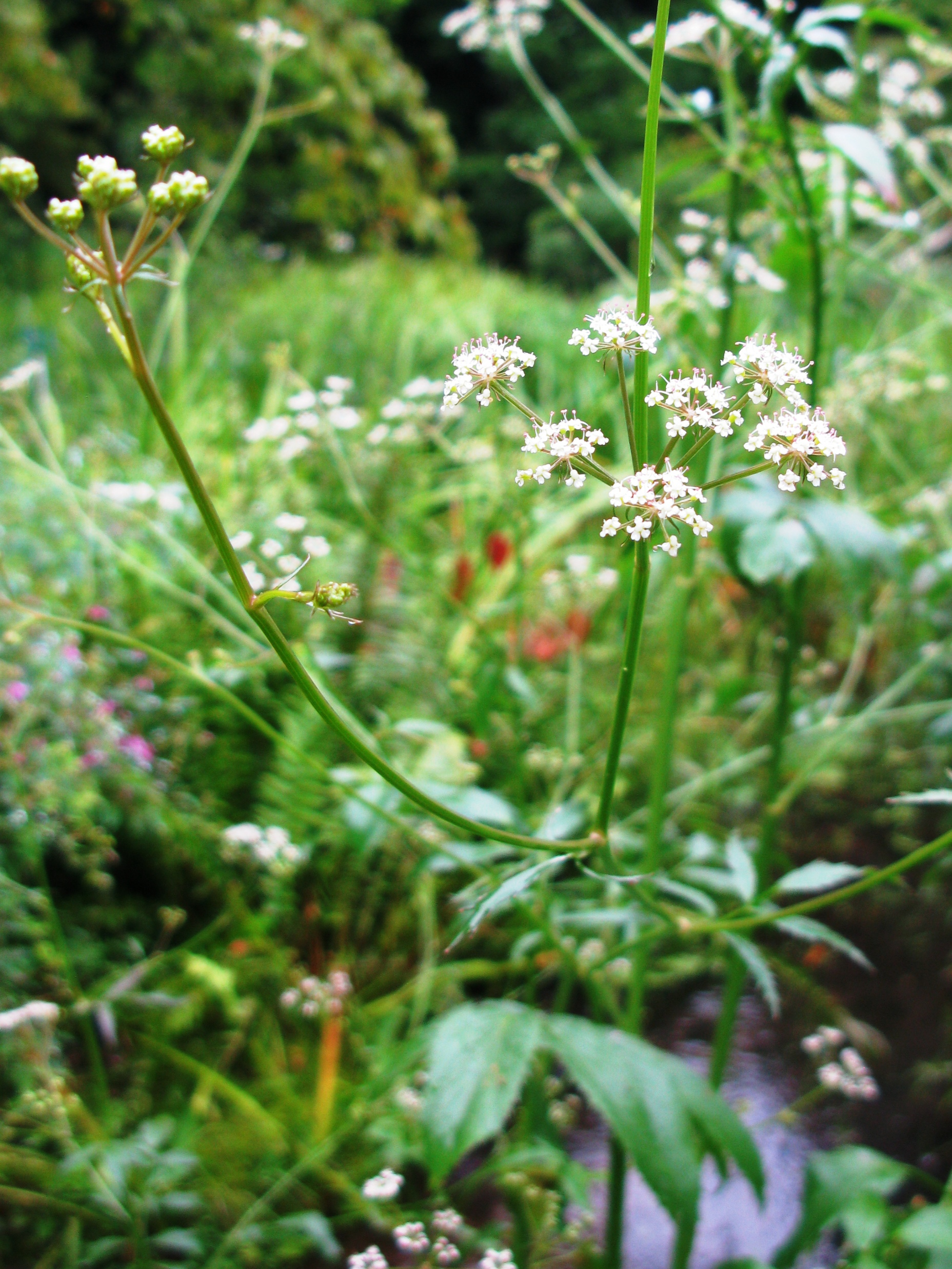 Sium suave var. nipponicum, Botanical Gardens, Nikko, Graduate School of Science, The University of Tokyo, Tochigi pref., Japan